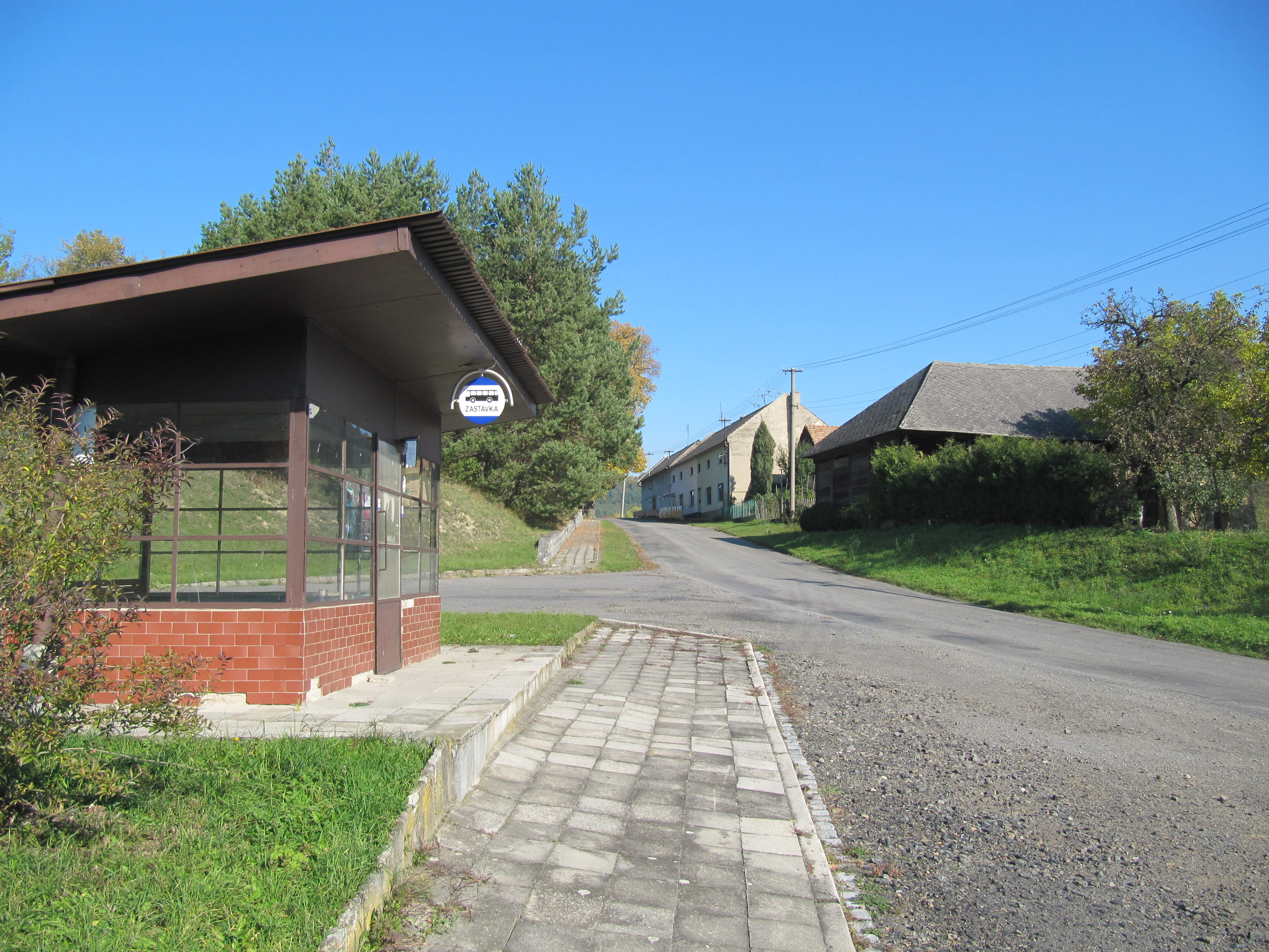 Chvalnov-Lísky in Kroměříž District, Czech Republic, part Lísky. Bus stop.